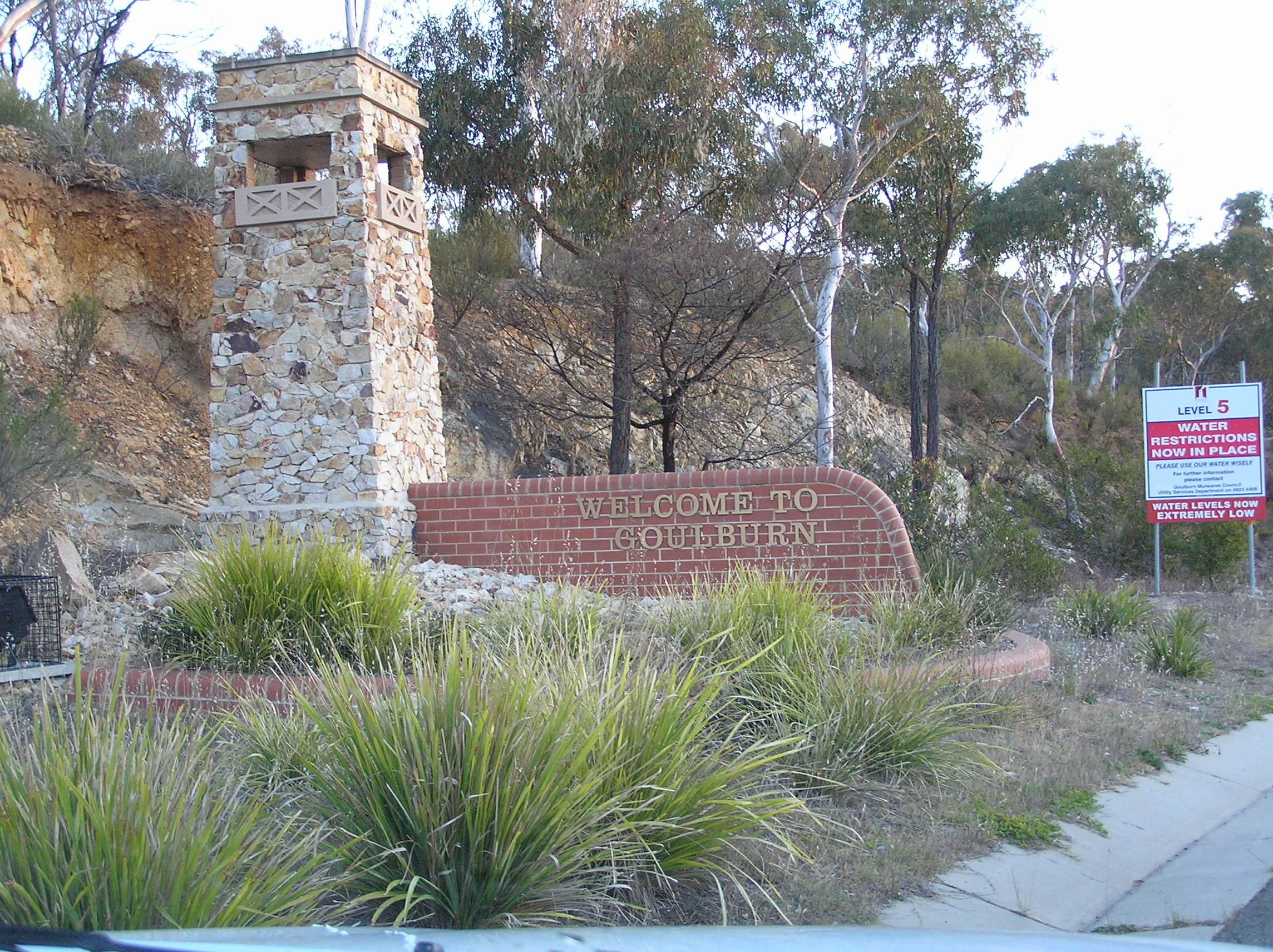 Welcome sign near Goulburn, New South Wales. Photo taken November 2006 by Brenden Ashton.